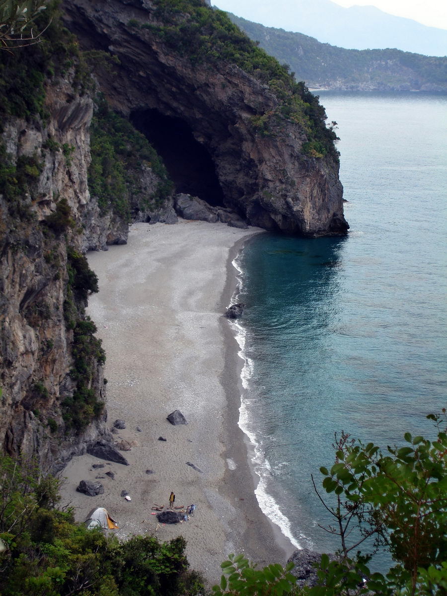 Beach at Chiliadou, in Euboea, Greece